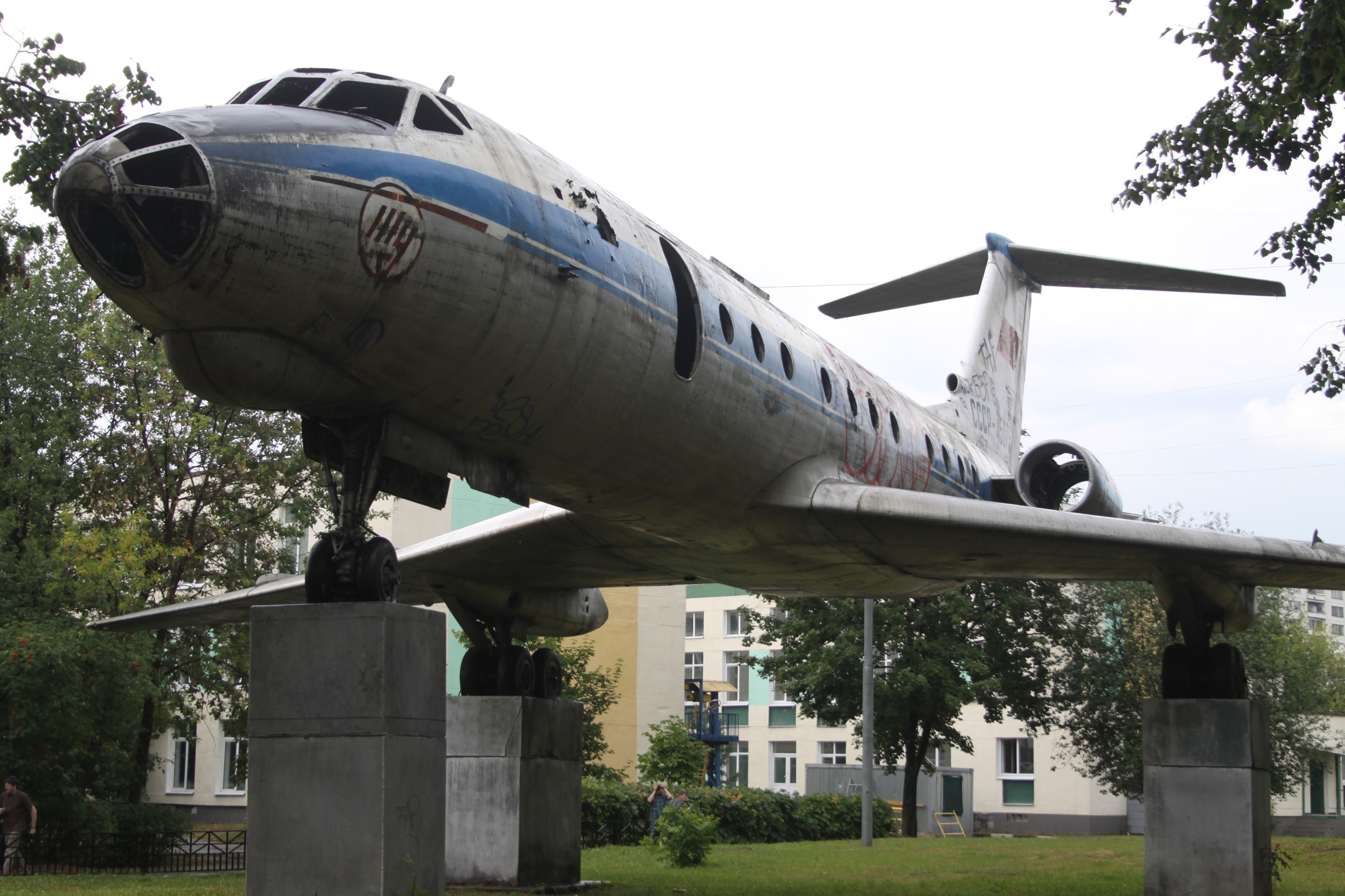 At Moscow-Novogireyevo